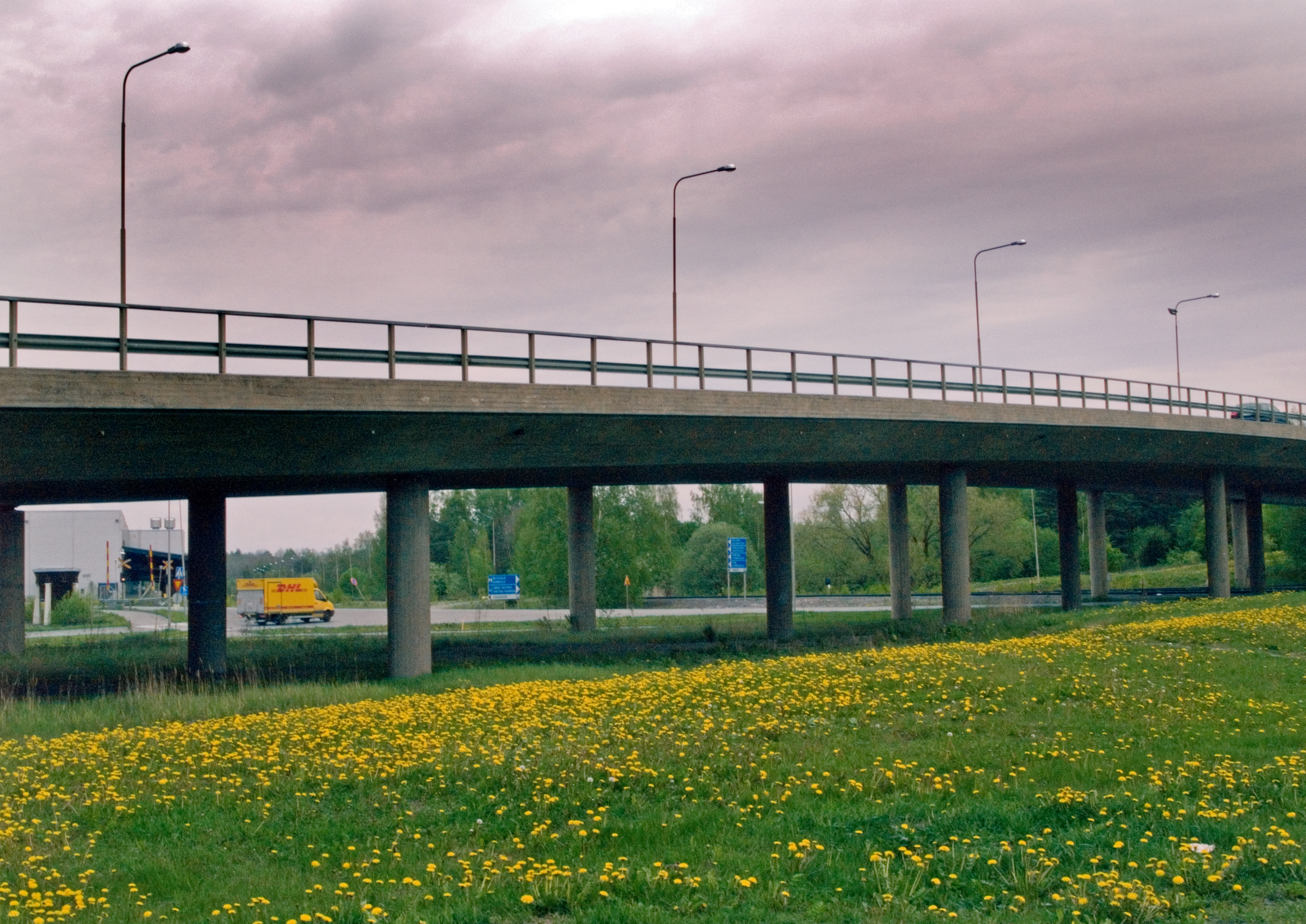 Pahaniemi bridge takes the Pansiontie road over railroad tracks leading to the harbour of Turku, Finland.